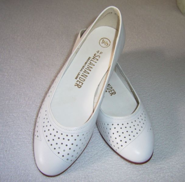 White Ballerina Shoes, Sold on eBay a long time ago...